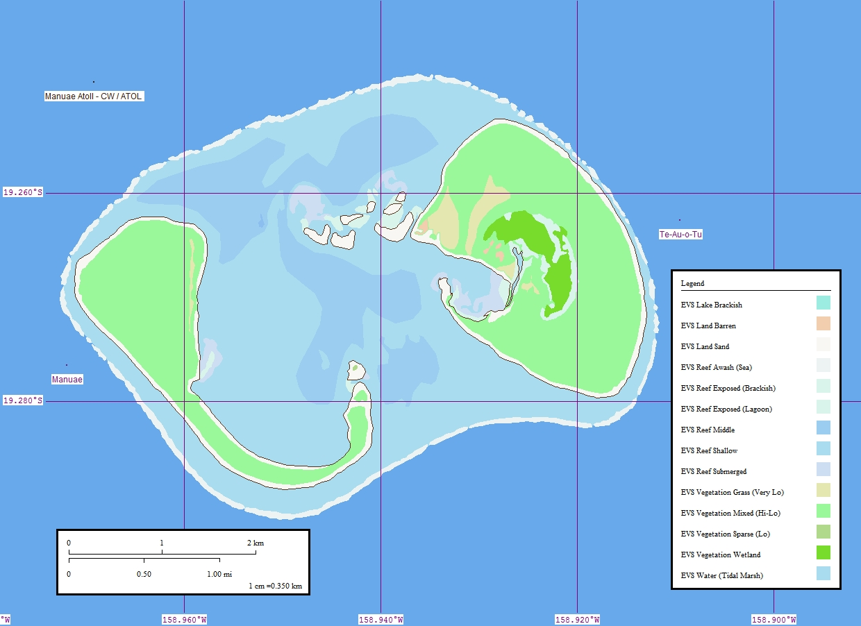 Map of Manuae Atoll, Cook Islands